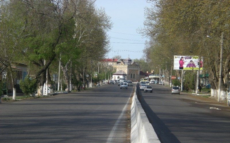 Alisher Navoi